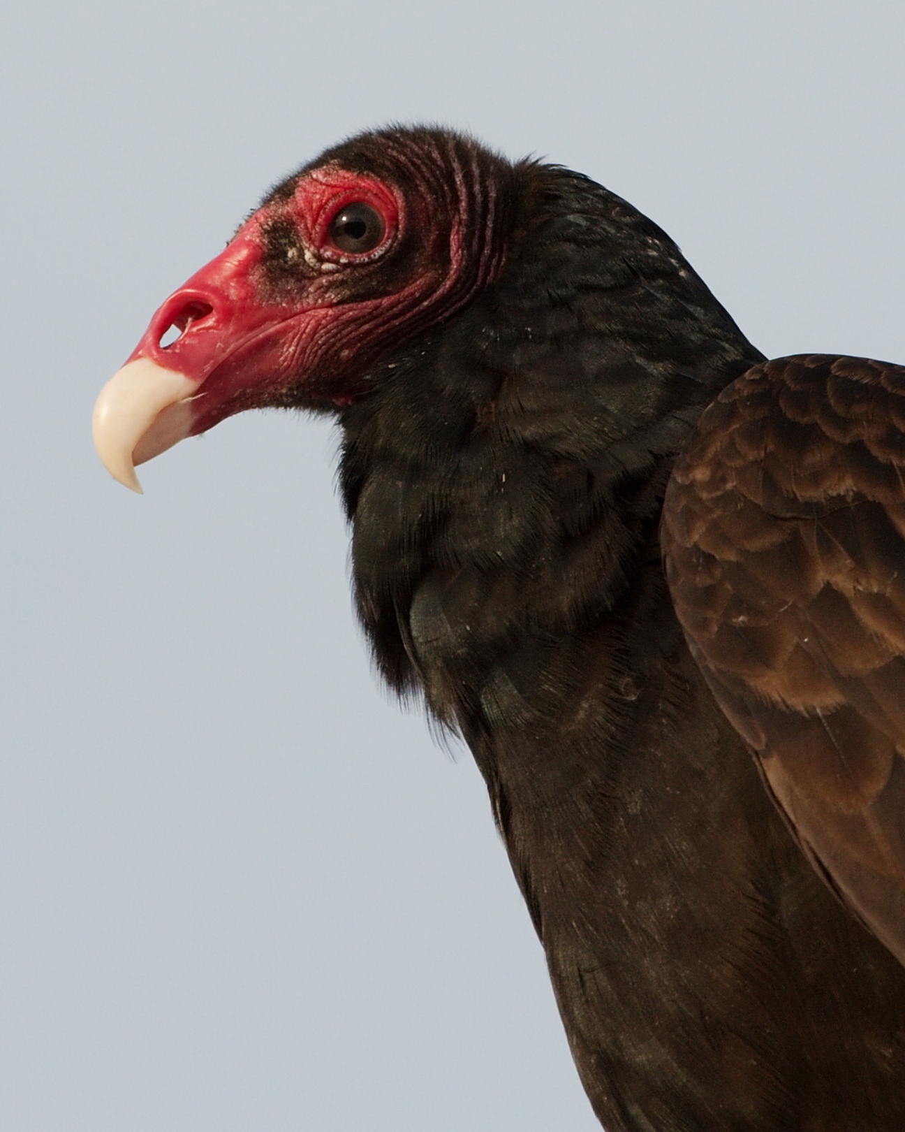 Turkey Vulture in Miami, Florida, USA.